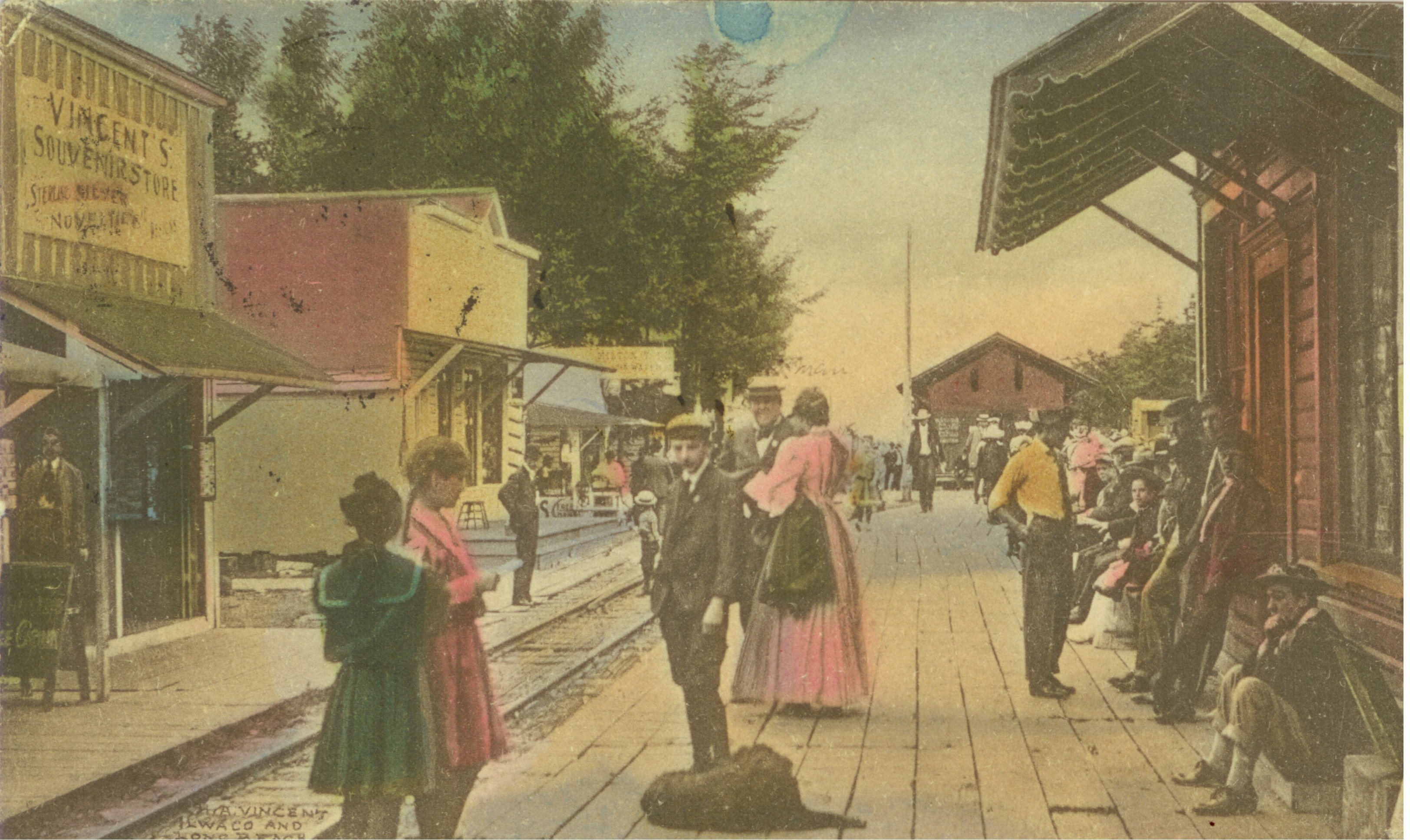 Long Beach, Washington, ca 1909, looking north along the line of the Ilwaco Railway and Navigation Company, at an early tourist area called "Rubberneck Row".